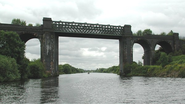 Cadishead Viaduct - the bridge between Salford and Trafford in Greater Manchester, England.